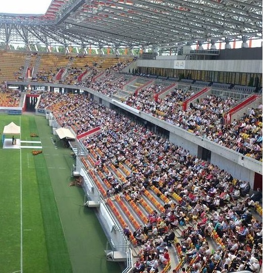 District convention of Jehovah's Witnesses (Białystok, Polska, 2015)